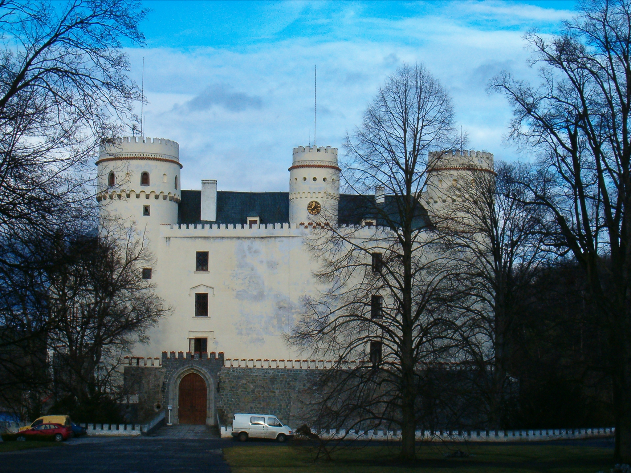 Orlík castle, 2007.